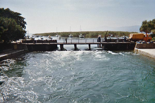 The Black Drin flowing out from Lake Ohrid at Struga.